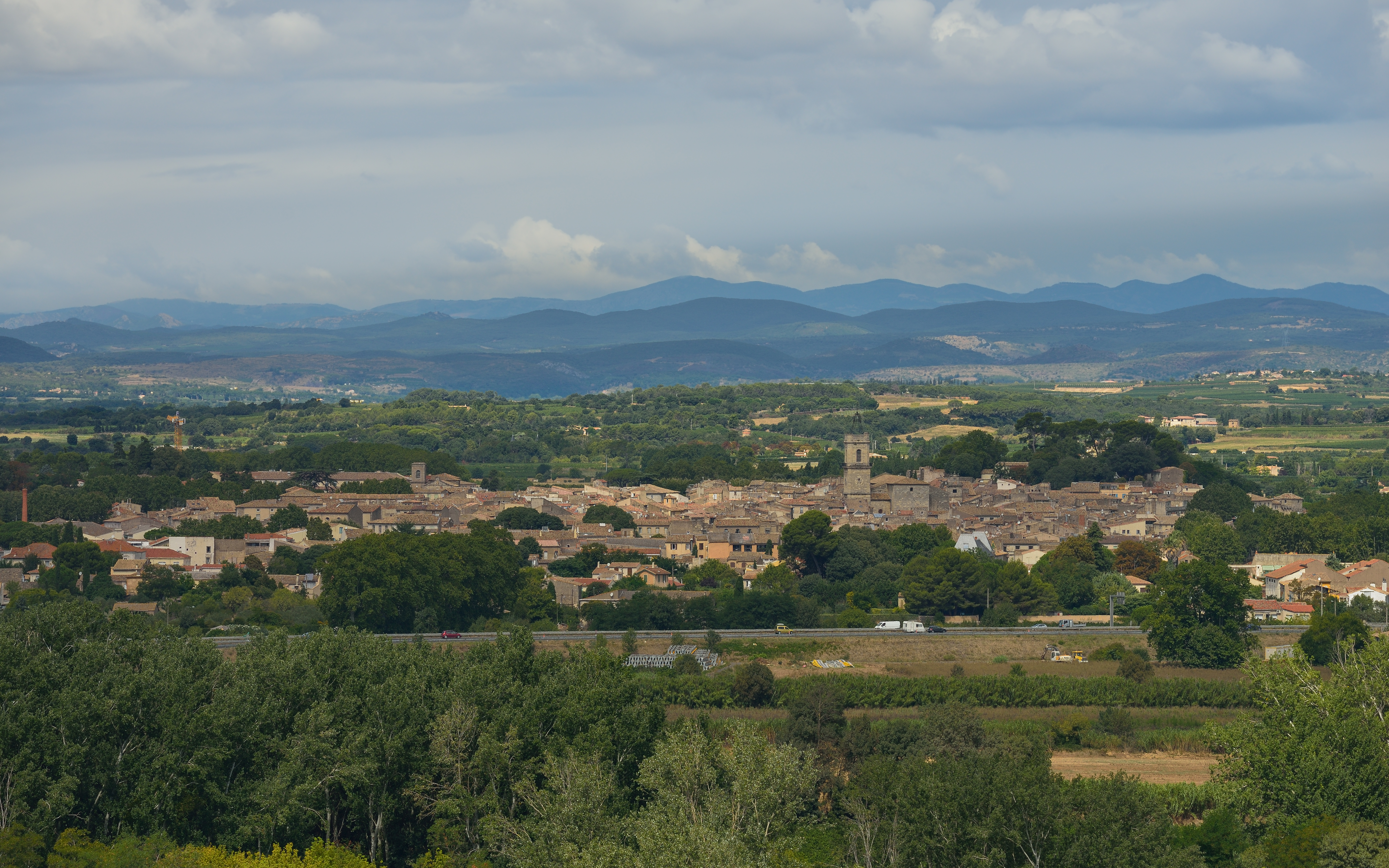 General view of Pézenas and the A75 autoroute from the Southeast in the commune of Castelnau-de-Guers, Hérault, France.